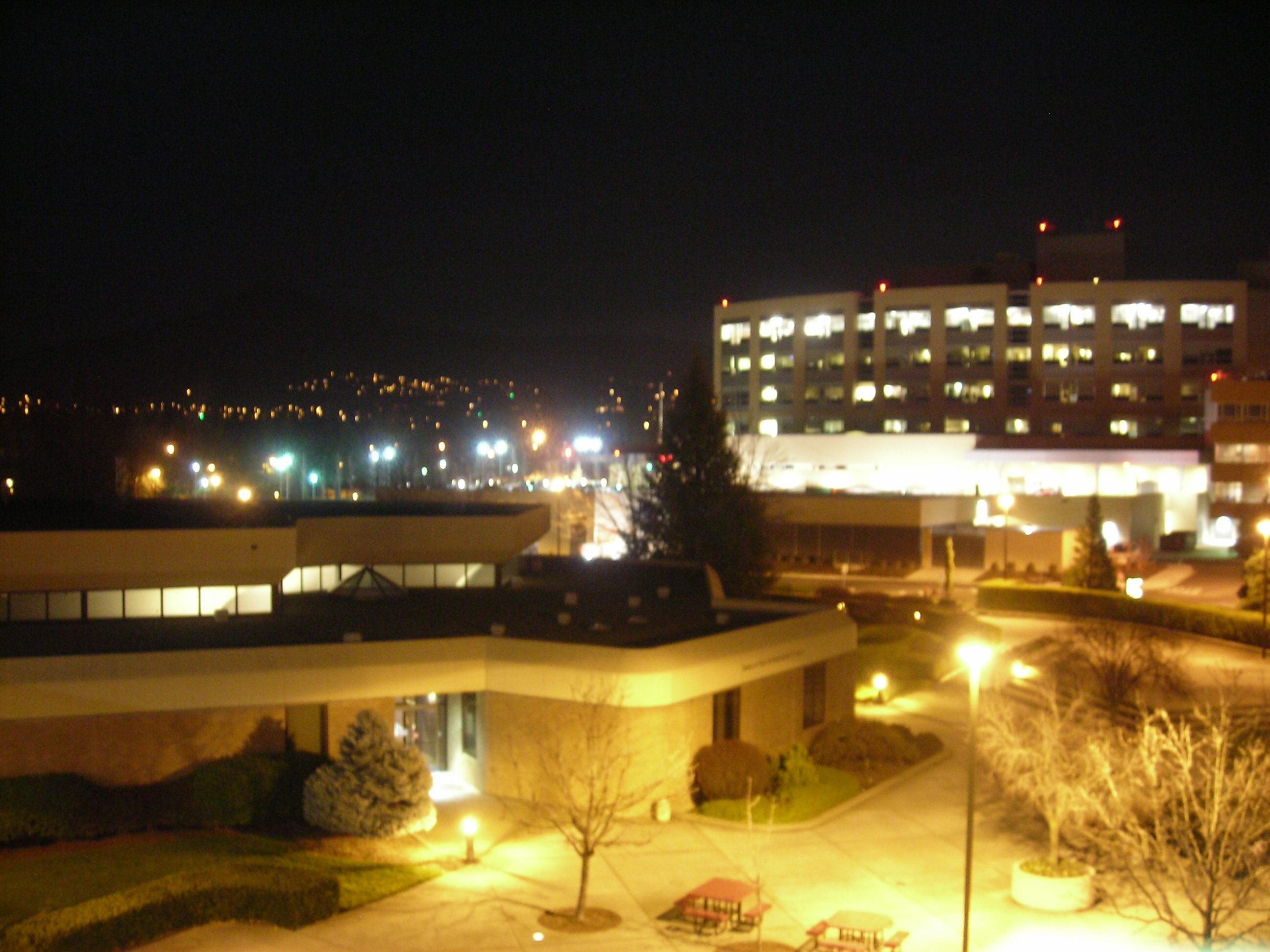 Taken from the 4th level of the RVMC Parking Garage. Looking Toward the Patient Tower (Right) and the Oregon Hills area of Roxy Ann Peak in the southeast Medford hills (Left).